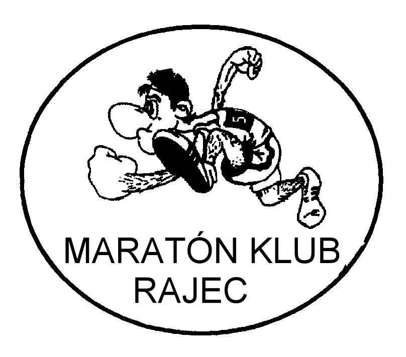 Maraton Rajec